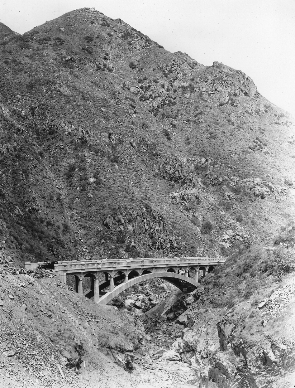 Bridge on the Ortega Highway crossing San Juan Canyon.